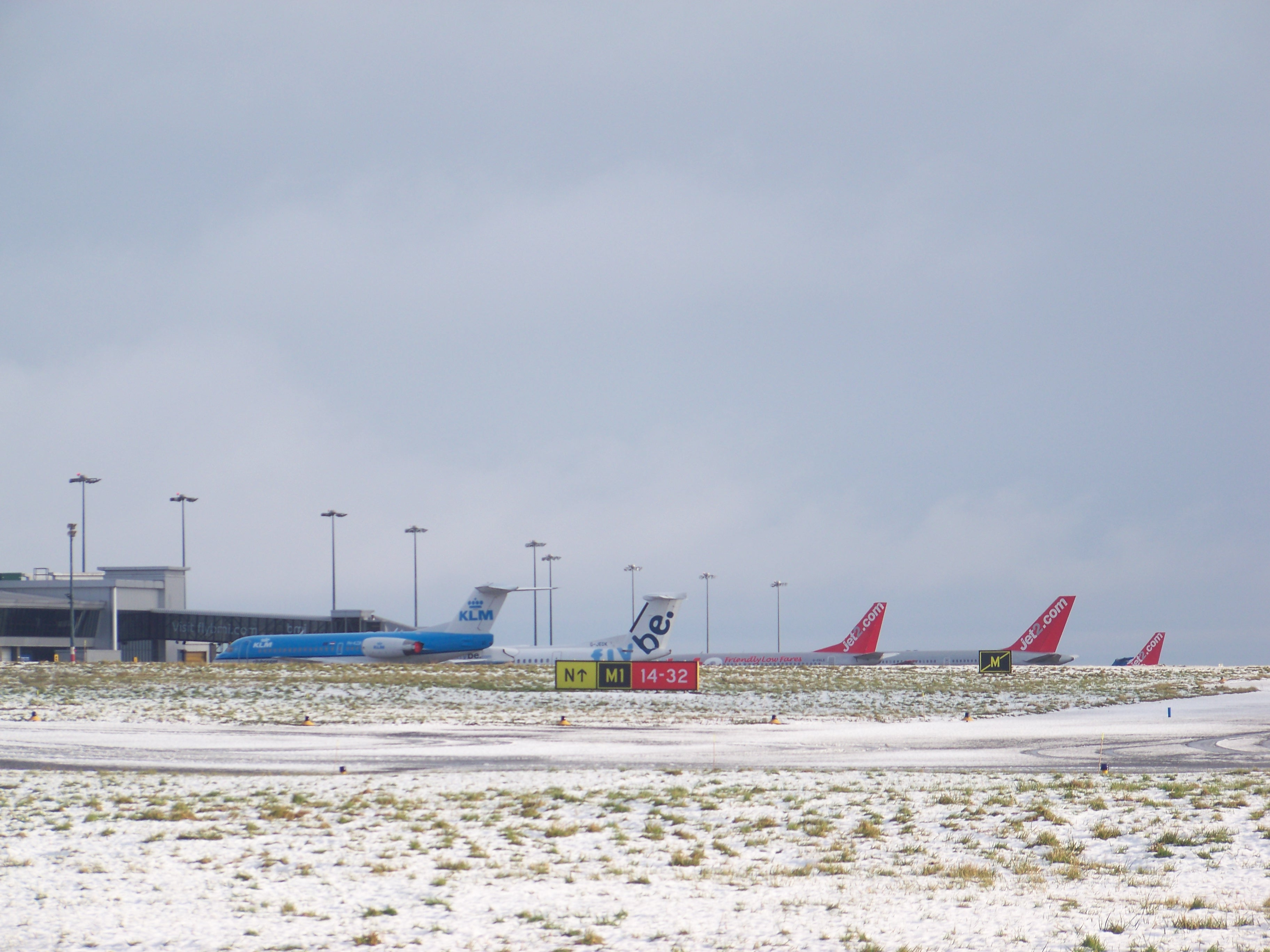 Aircraft at Leeds Bradford Airport during the 2009 European snowfall. Taken on the morning of Sunday the 27th of December 2009.